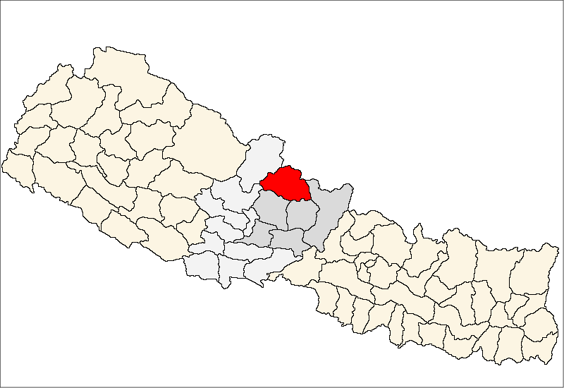 FrenchCarte de localisation dudistrict de Manang(wp-FR),au Népal (wp-FR).EnglishLocation map ofManang District(wp-EN),in Nepal (wp-EN).